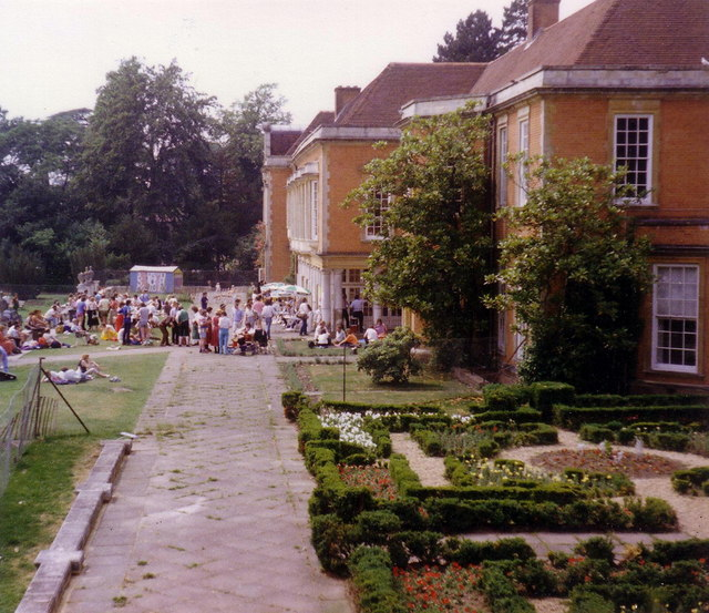 Bracknell Folk Festival, South Hill Park 1986 The gardens behind South Hill Park Arts Centre during the 1986 Folk Festival. Bands on that year included the Oyster Band, Whippersnapper, Battlefield Band and Swan Arcade.